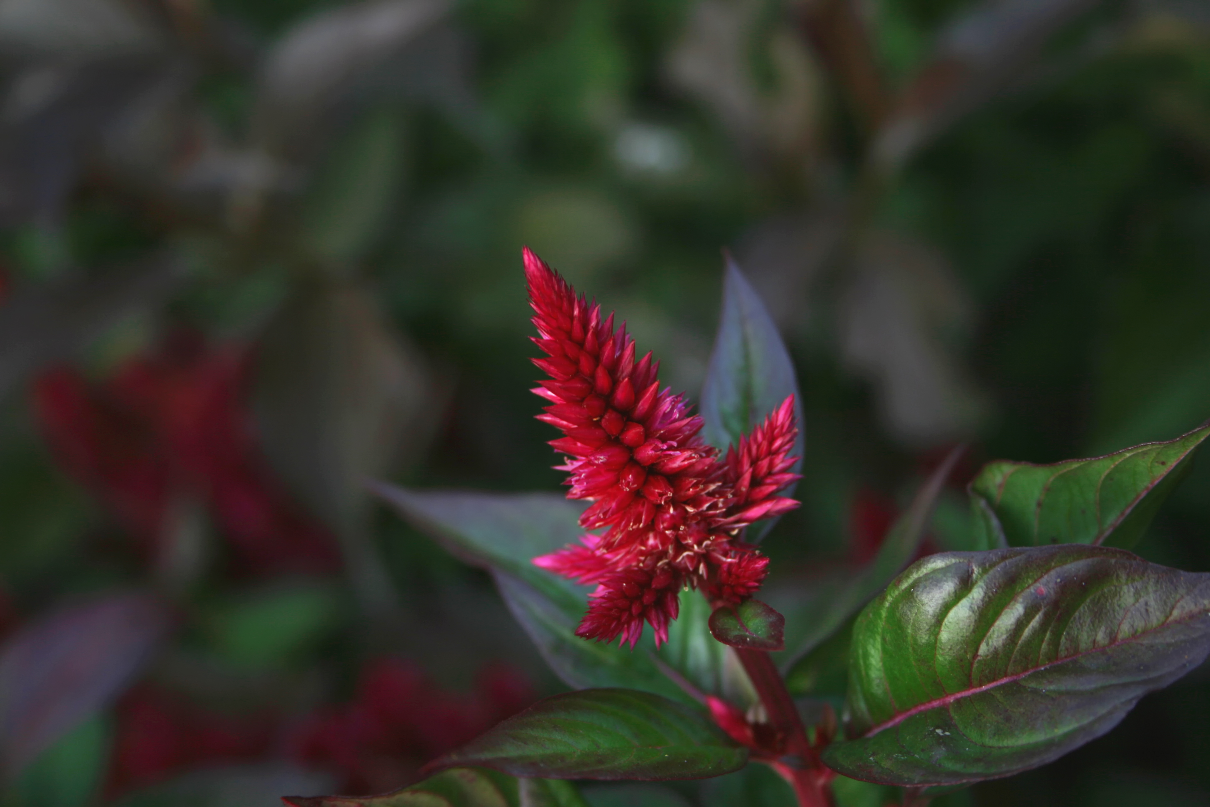 "Spiky Purple." Spiked cockscomb or Celosia argentea (gr. Spicata).